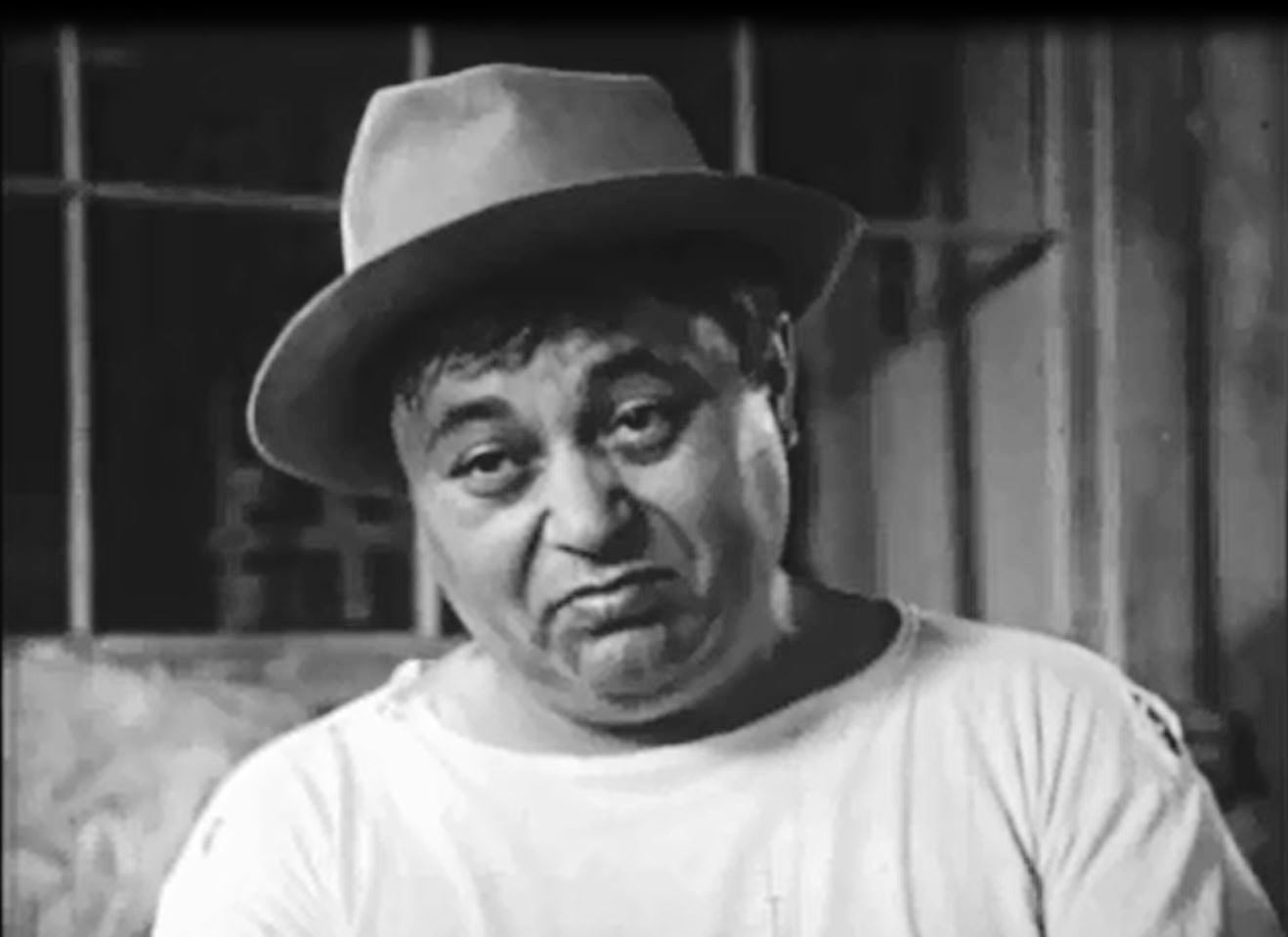 Low resolution screenshot of J. Edward Bromberg as Gabby in the American public domain film Queen of the Amazons (1947).